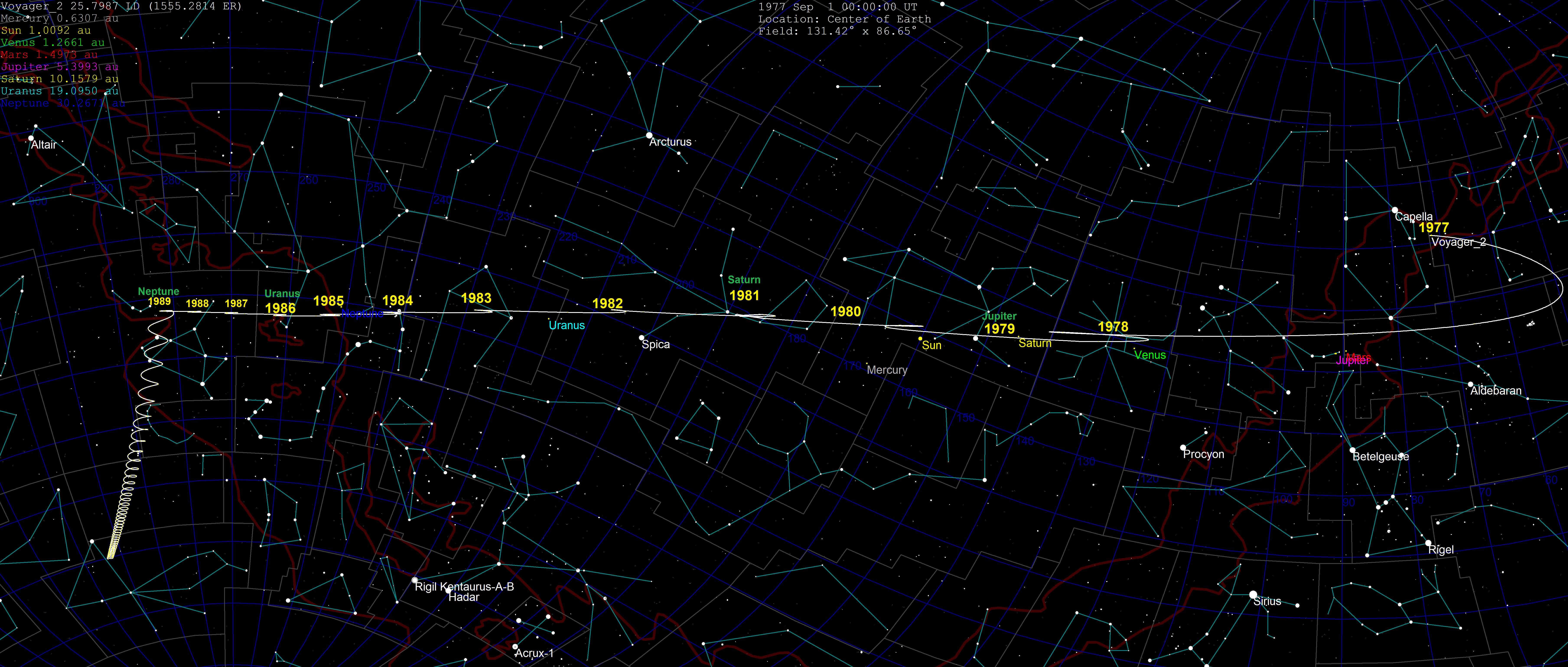 Voyager 2 trajectory in the sky from earth from 1977-2030, taken from ephemeris export